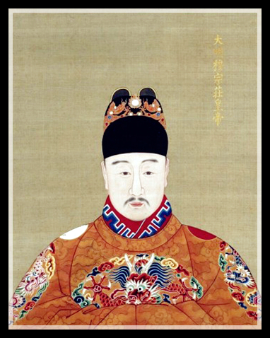 Emperor Muzong of Ming Dyansty China